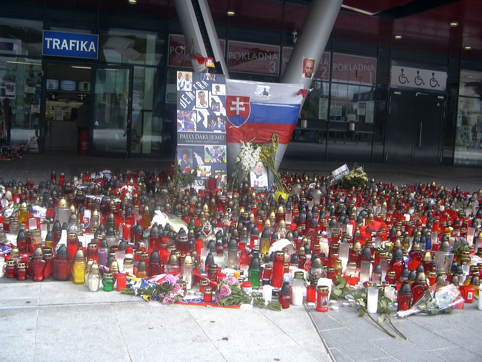 Pavol Demitra - Tribute (Bratislava, Slovakia)